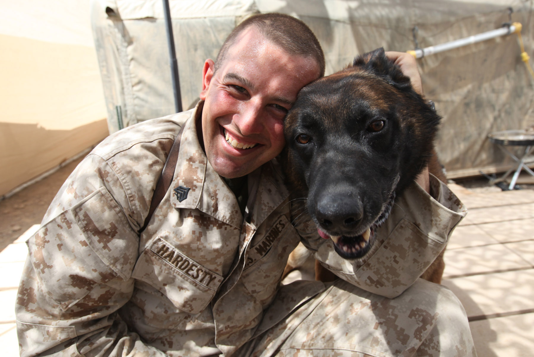 Sgt. Charles D. Hardesty, combat tracker dog handler, Military Police, I Marine Headquarters Group, I Marine Expeditionary Force (FWD), bonds with his dog, Robbie or also known as “bear dog”, at Camp Leatherneck, Afghanistan. “Robbie loves attention;” says Hardesty, “he is a nutcase.” Hardesty and Robbie have been together for two years and both have a constant flow of energy. Hardesty, from Smoot, Wyo., says his favorite memory with Robbie was while assigned to a compound in Helmand province. Both, handler and his dog, huddled together in a corner to keep warm.